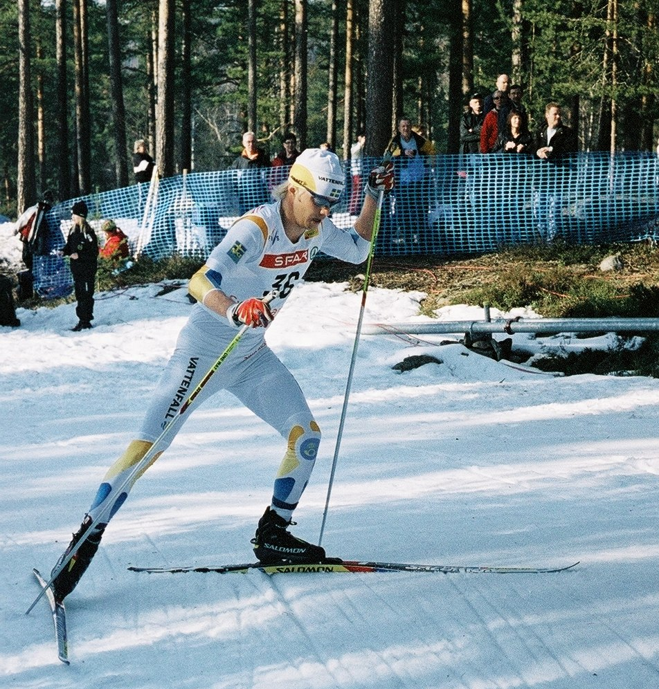 Martin Larsson, WC Falun 2007A237370 018